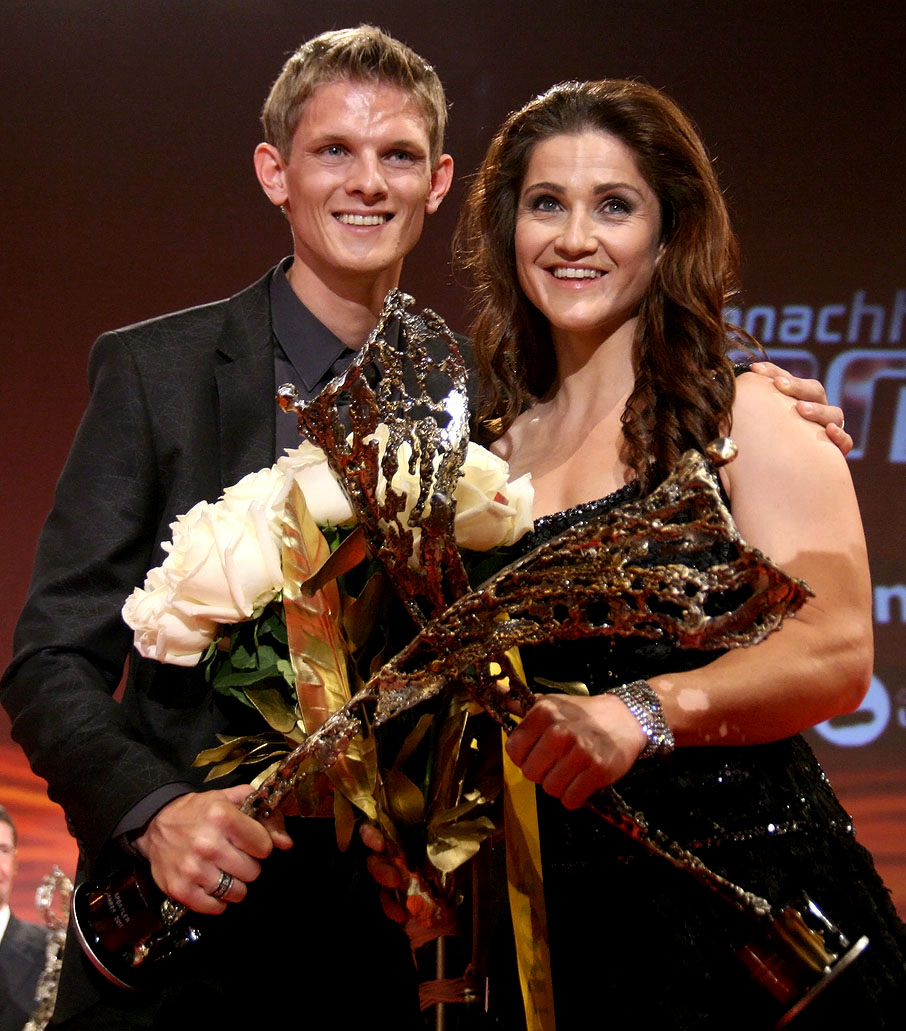 Elisabeth Görgl and Thomas Morgenstern, Austrian Sportspersonalities of the year 2011 (Eventhotel Pyramide in Vösendorf, Lower Austria).